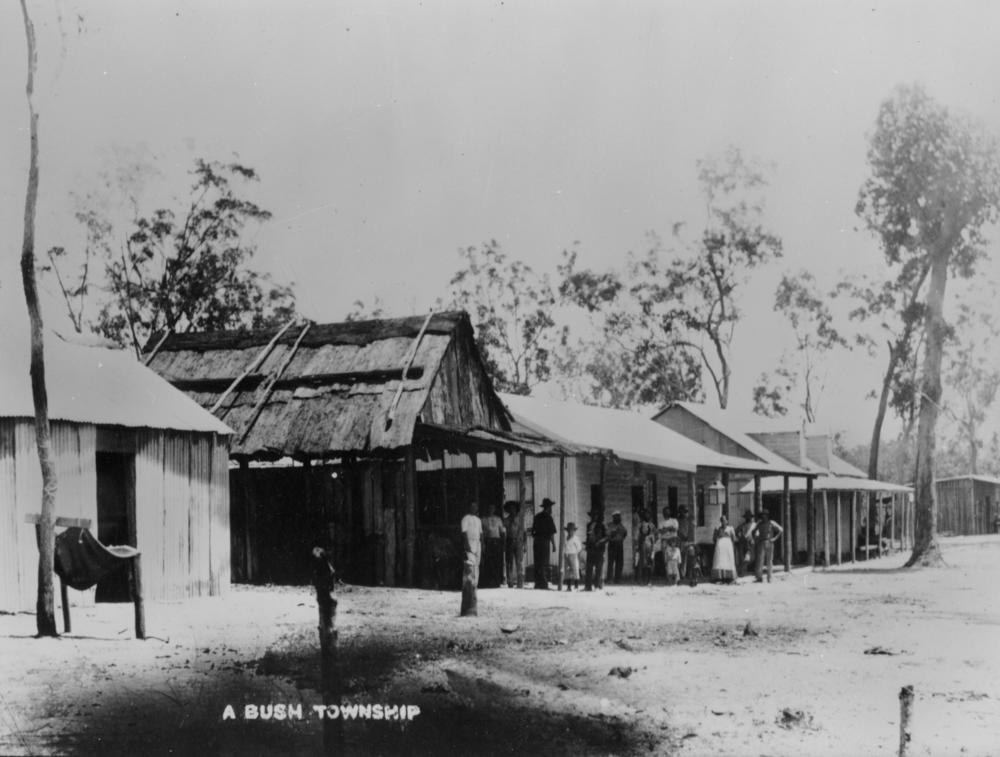 View of the town of Biboohra circa 1893